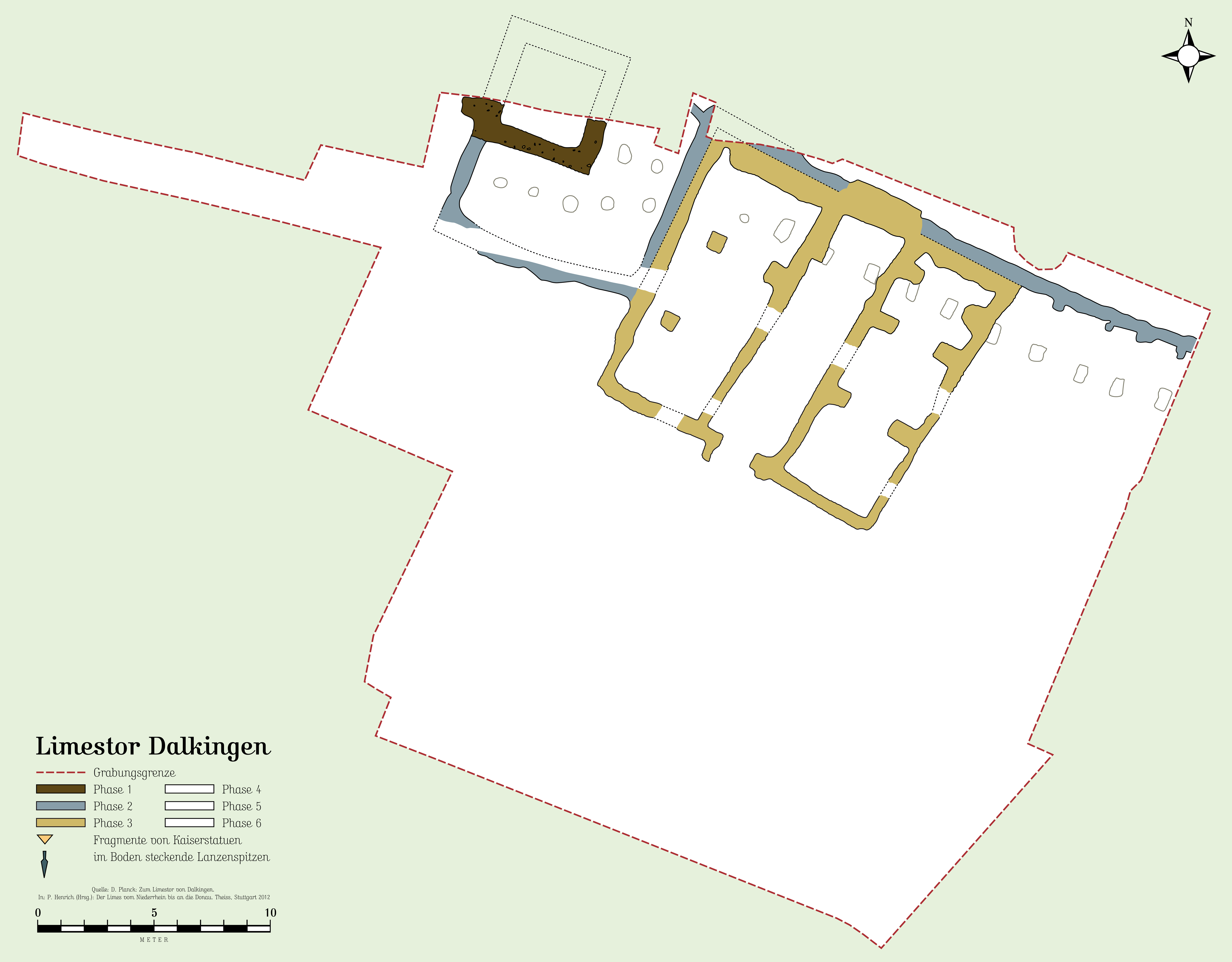 The Roman Limes gate of Dalkingen, Germany; 3rd construction phase (of altogether six) after D. Planck. Created on Macintosh; saved in Wikipedia with Adobe Photoshop CS 3